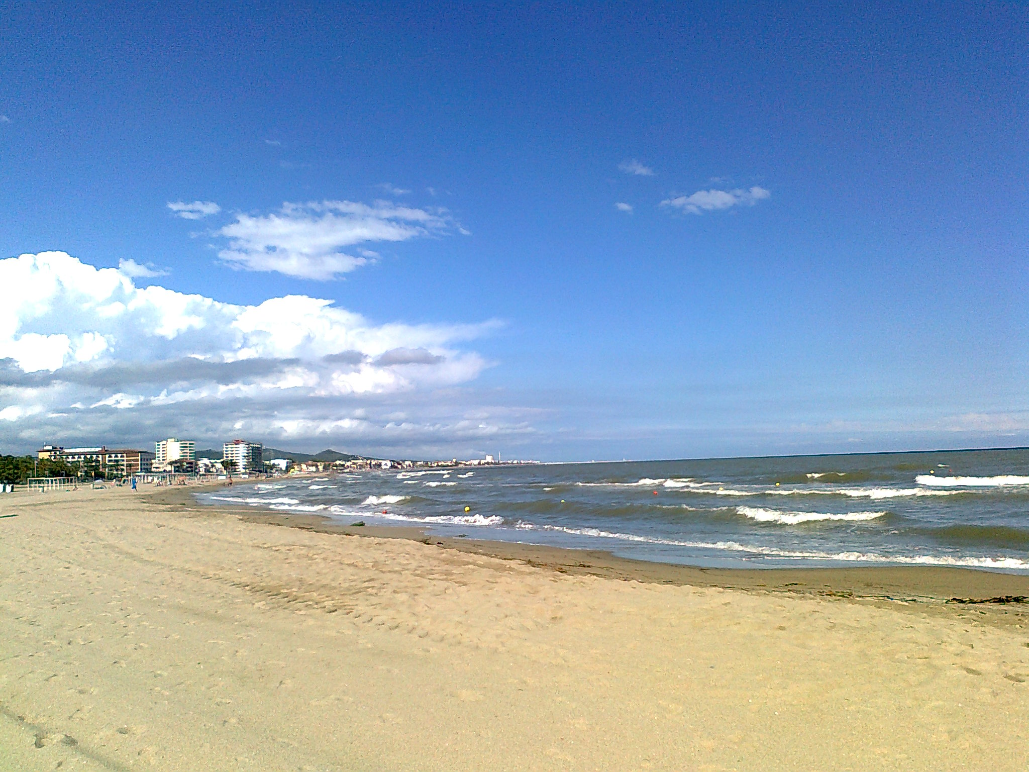 Comarruga Beach, from the West